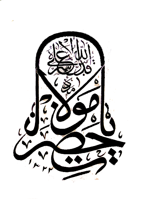 Sufi Calligraphy